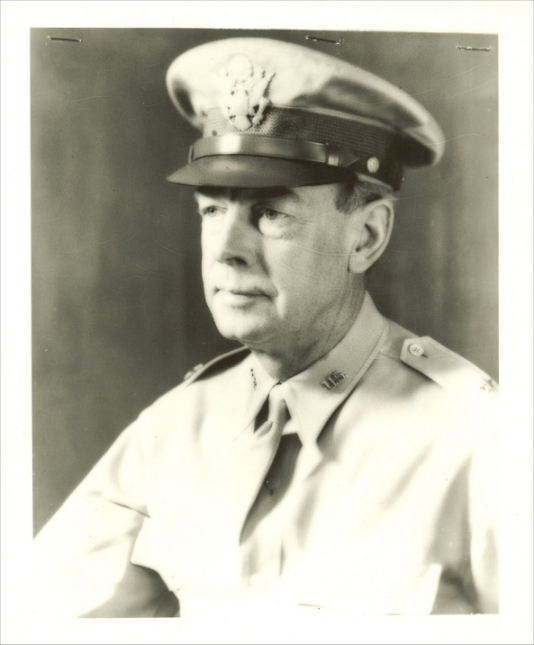 Henry Conger Pratt (September 2, 1882 - April 6, 1966) was a Major General in the United States Army, who spent most of his career as an aviation pilot.